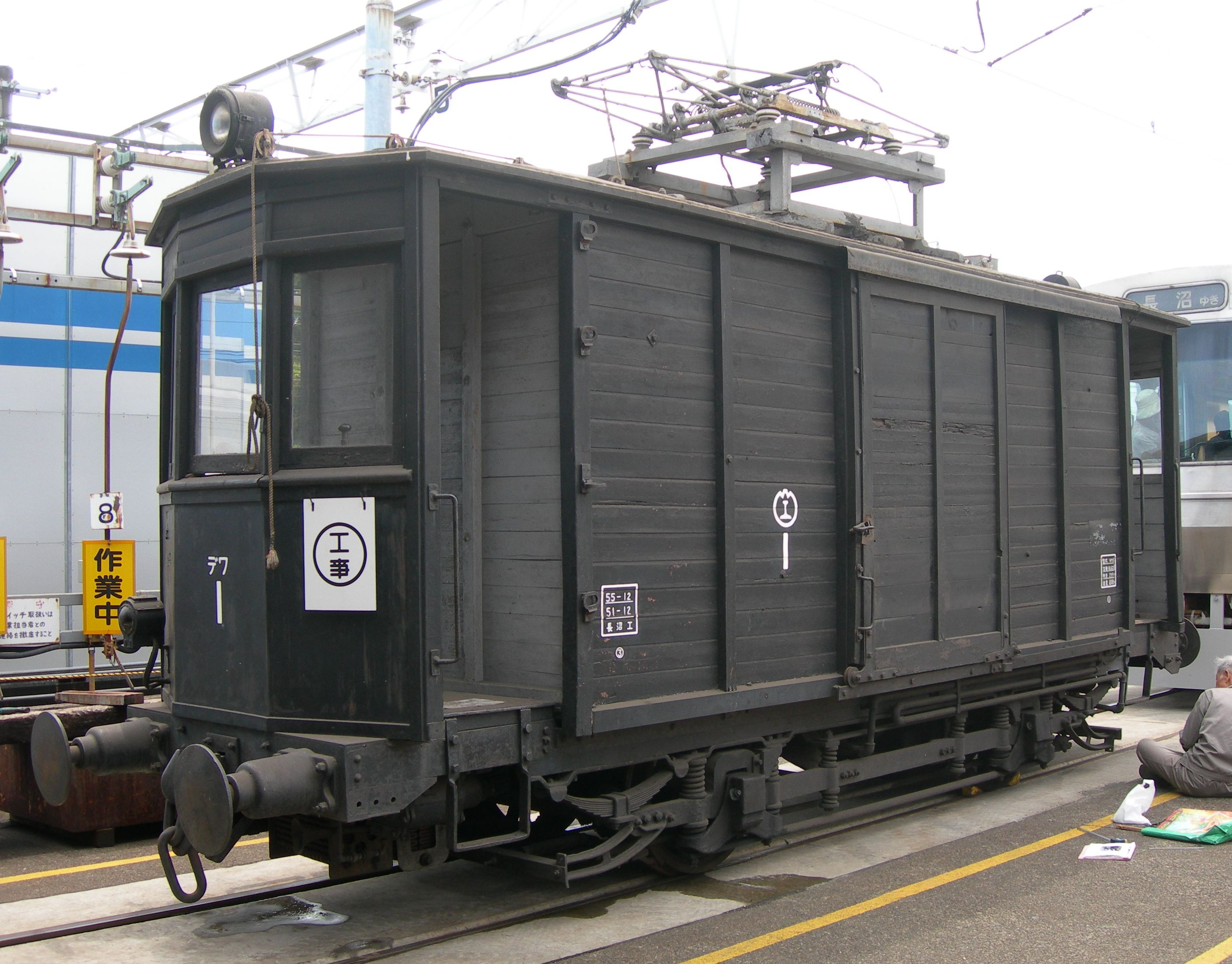 Shizuoka Railway Dewa 1 series electric freight car at Naganuma Workshop